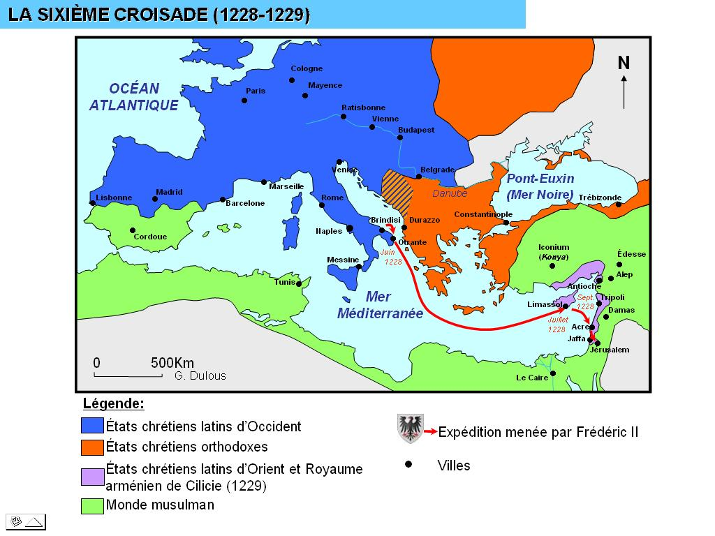 Sixth crusade